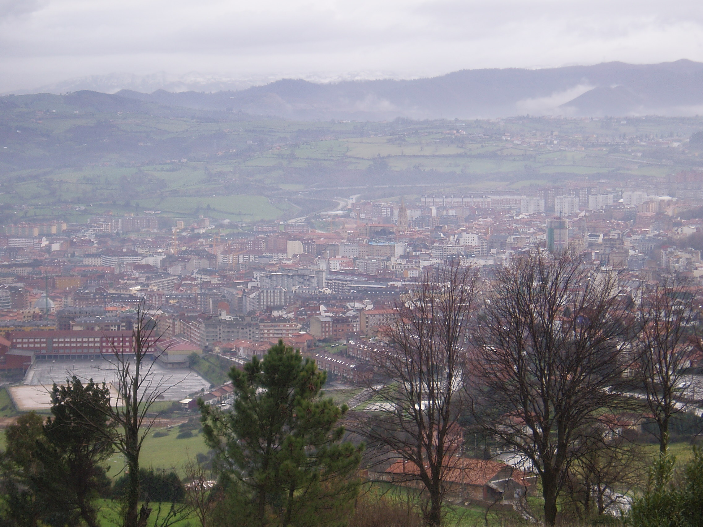 City of Oviedo. Principality of Asturias. Spain.